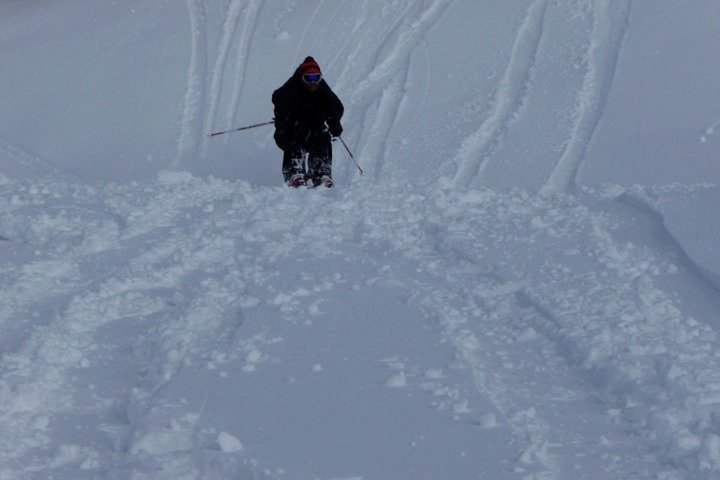 Skoarding test Les Arcs, France